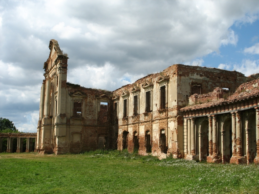 Palace of Sapieha (Ruzhany), Belarus